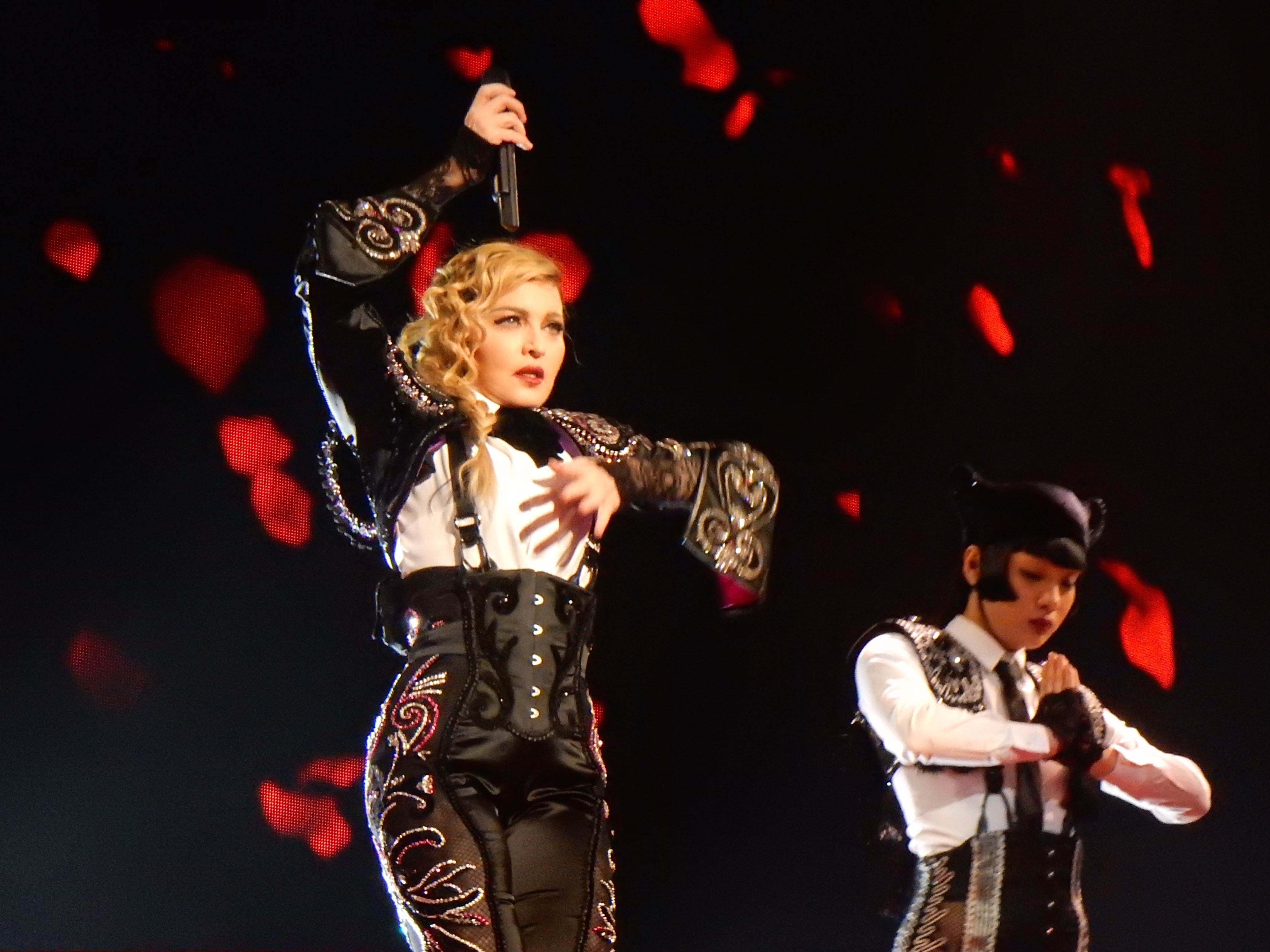 Madonna - Rebel Heart Tour 2015 - Berlin 1